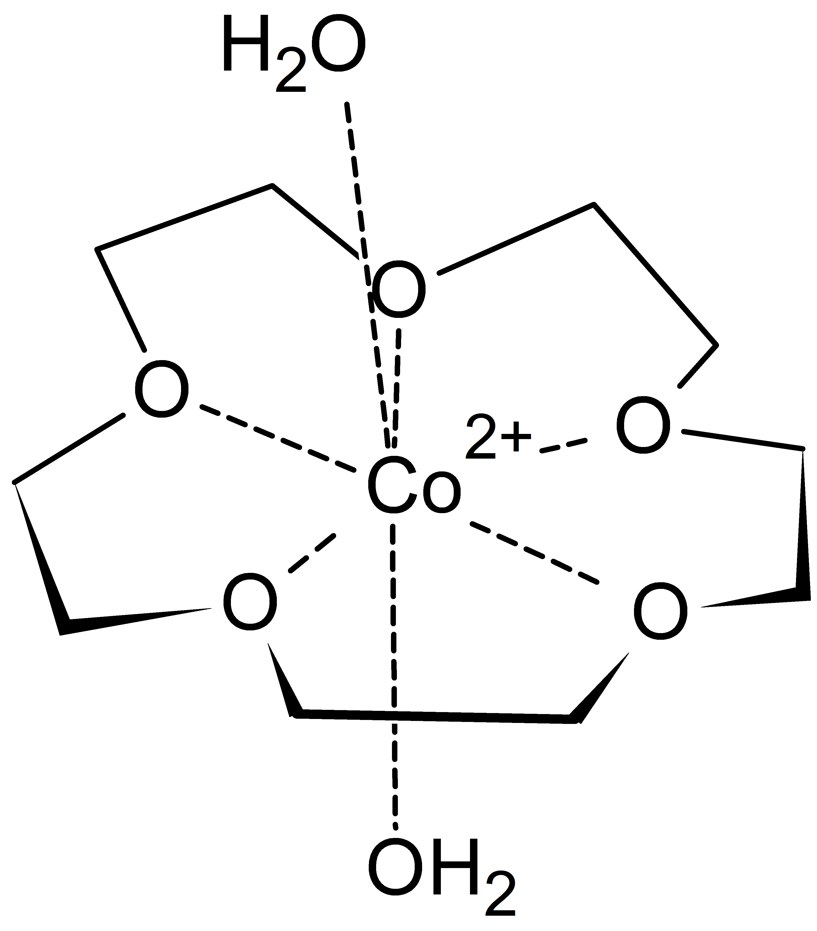 Structure of Cobalt (II) complex with 15-crown-5